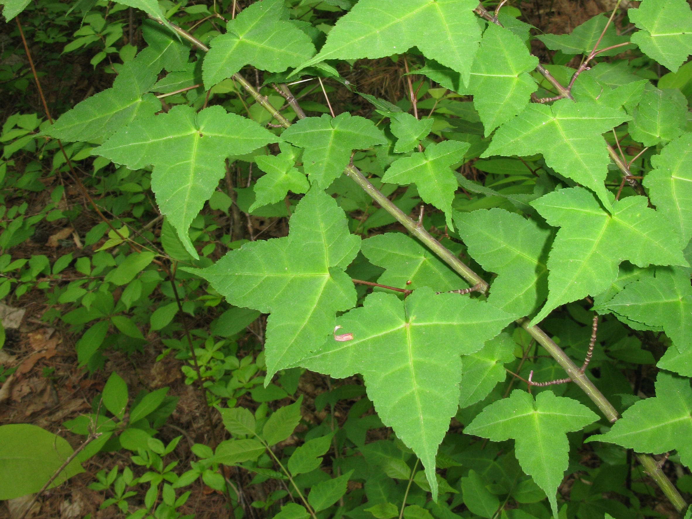 Acer crataegifolium, Aizu area, Fukushima pref., Japan